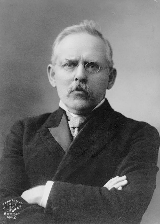 Jacob August Riis, half-length portrait, facing front, arms folded.